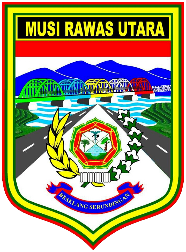 Coats of arms of North Musi Rawas regency